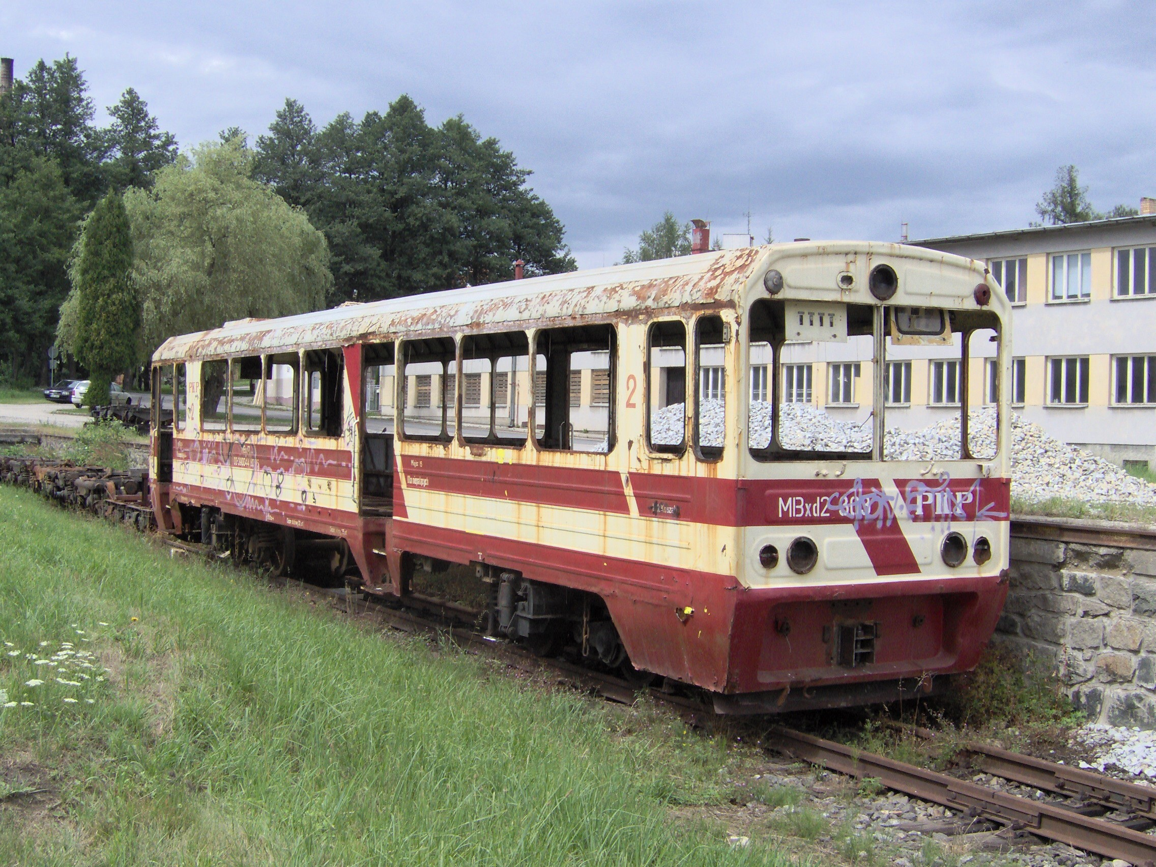 MBxd2 303 polish diesel railcar (ČD Class 805.9) waiting for reconstruction, Kamenice nad Lipou, Pelhřimov District, Czech Republic